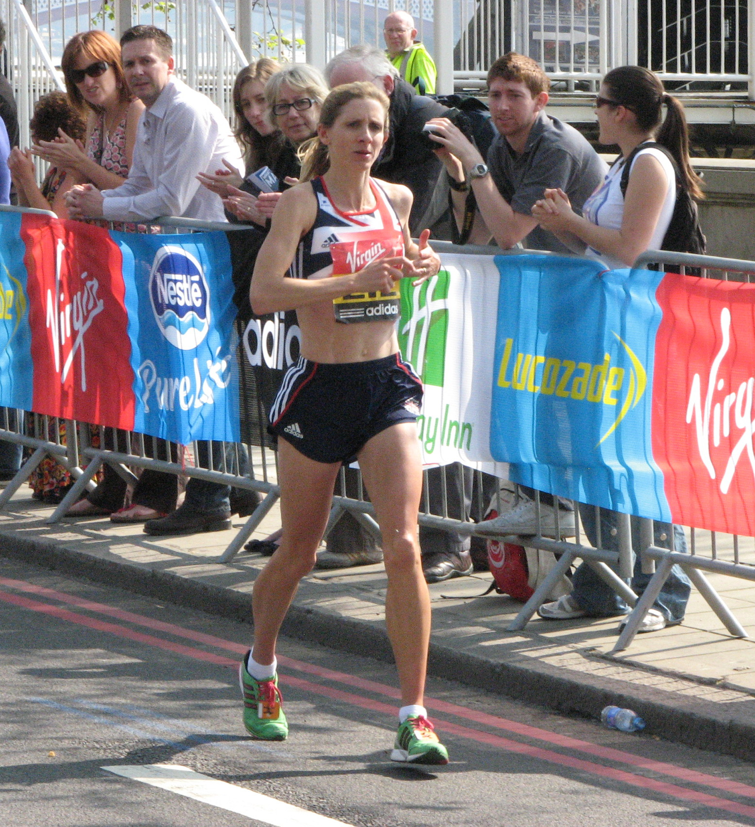 Liz Yelling came 32nd with 2:41:34, some way short of her sub-2:30 PB and of the British olympic qualifying time. She was weaving somewhat as she went off up the road - not a good day at the office. Virgin London Marathon, 17 April 2011. Taken from 24 and a half miles, at the (western) junction of Victoria Embankment and Temple Place, very close to the Walkabout.